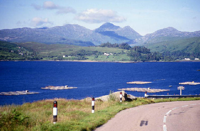 Ardnastang and Strontian from Loch Aline road.